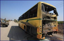 Israeli achool bus hit by a rocket fired from Gaza by hamas. An Israeli teen was killed in this attack.